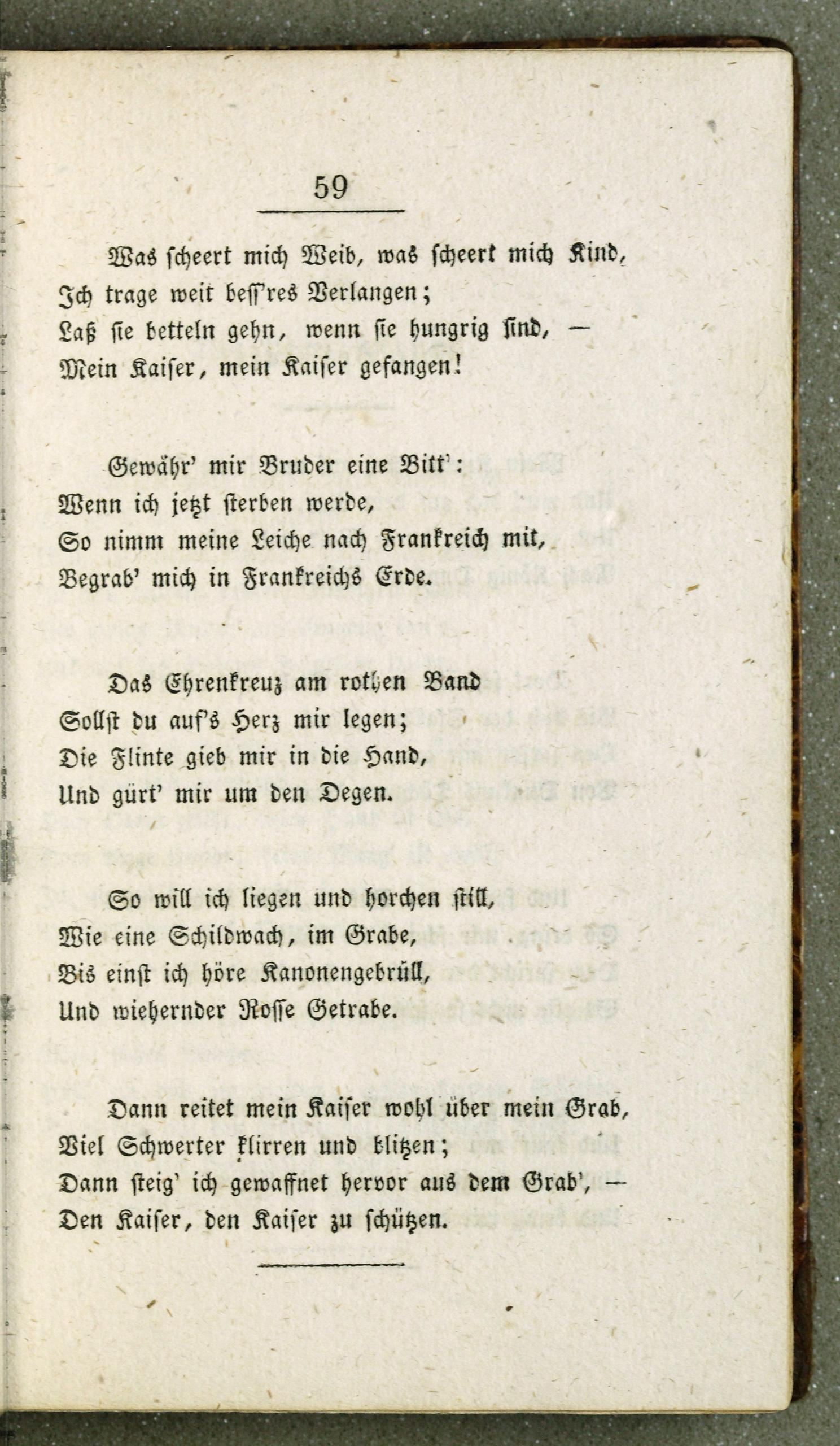 This is a scan of the historical document